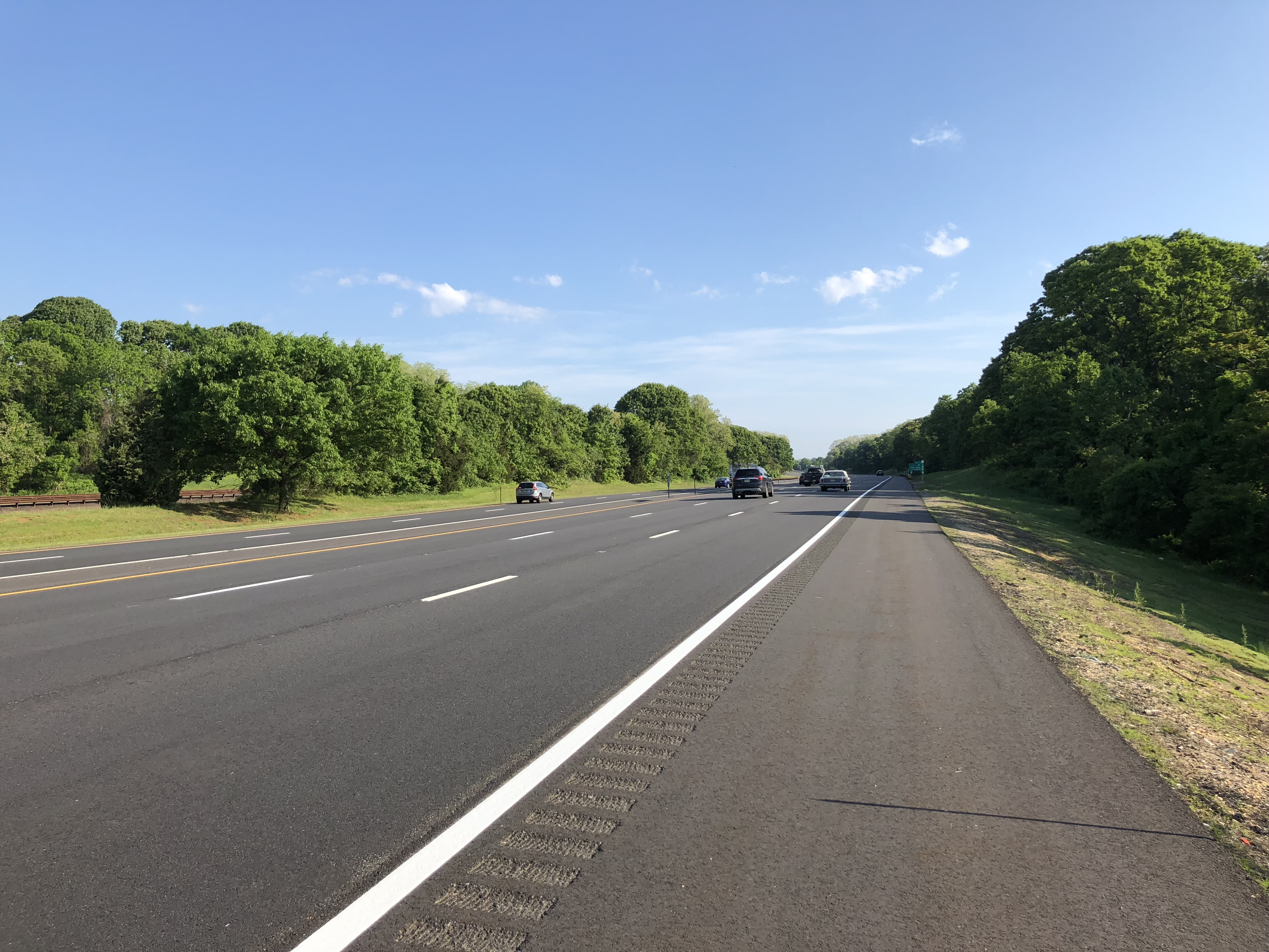 View north along New Jersey State Route 444 (Garden State Parkway) between Exit 105 and Exit 109 in Middletown Township, Monmouth County, New Jersey